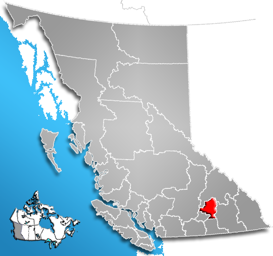 Location of Regional District of North Okanagan, British Columbia